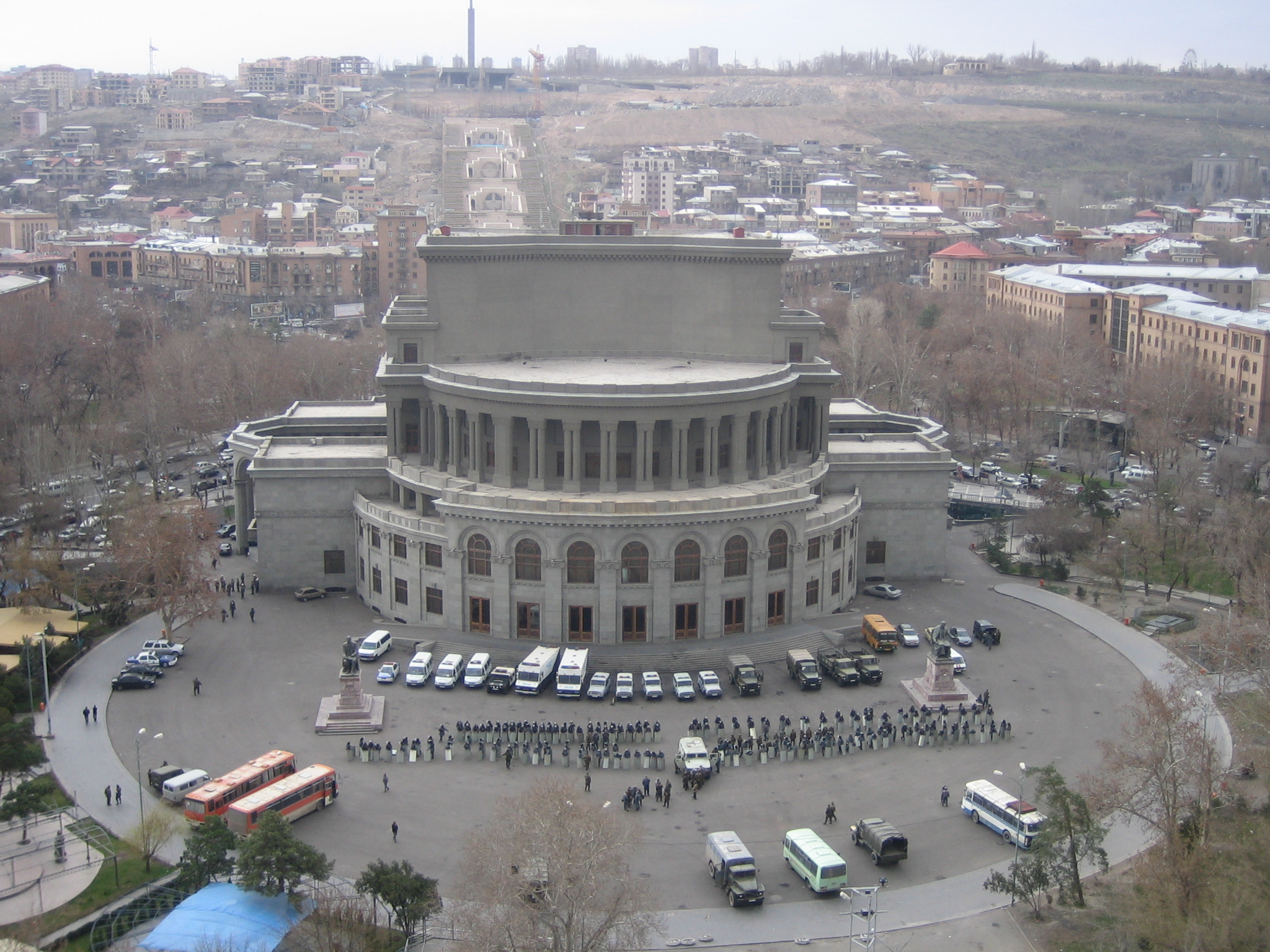 The first day after the 20-day state of emergency had been lifted after the Armenian presidential election protests. Between 5pm and 7pm, about 1,000 citizens -- mostly women -- participated in a peaceful and silent protest and vigil to remember those who died on March 1, condemn the government's actions, and to recognize the more than 100 political prisoners. In this picture (4:50 pm), a general view of Liberty Square with riot police, special forces, and army presence who have cordoned off the square in order to prevent citizens from holding their protest there (all other major squares in Yerevan were likewise cordoned off). (Note that photography was not allowed.)